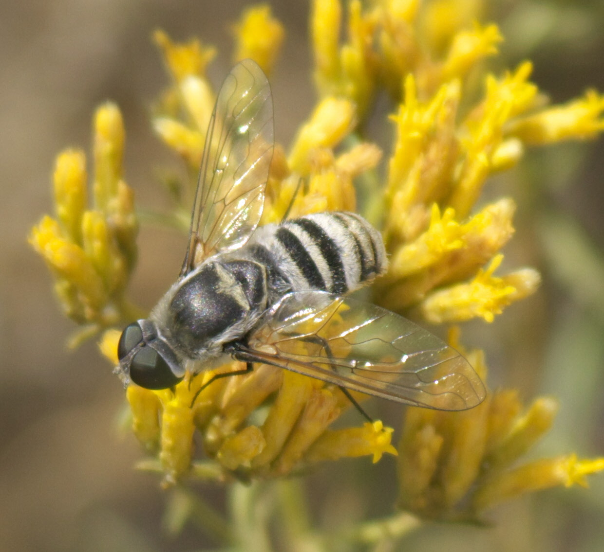 Villa, Family: Bee Flies, ID Confidence: 98